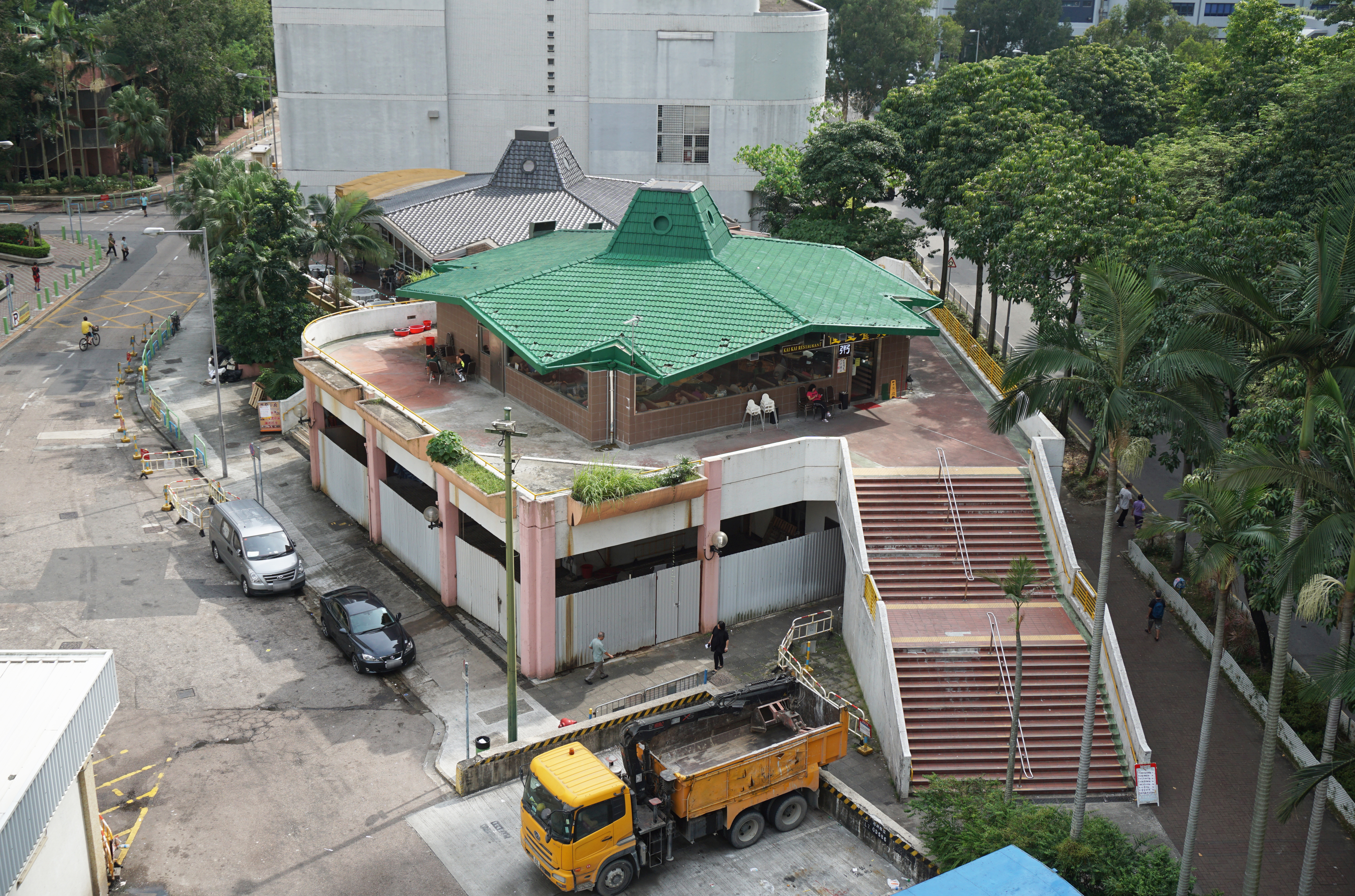 Fu Shin Estate in Tai Po, Hong Kong.